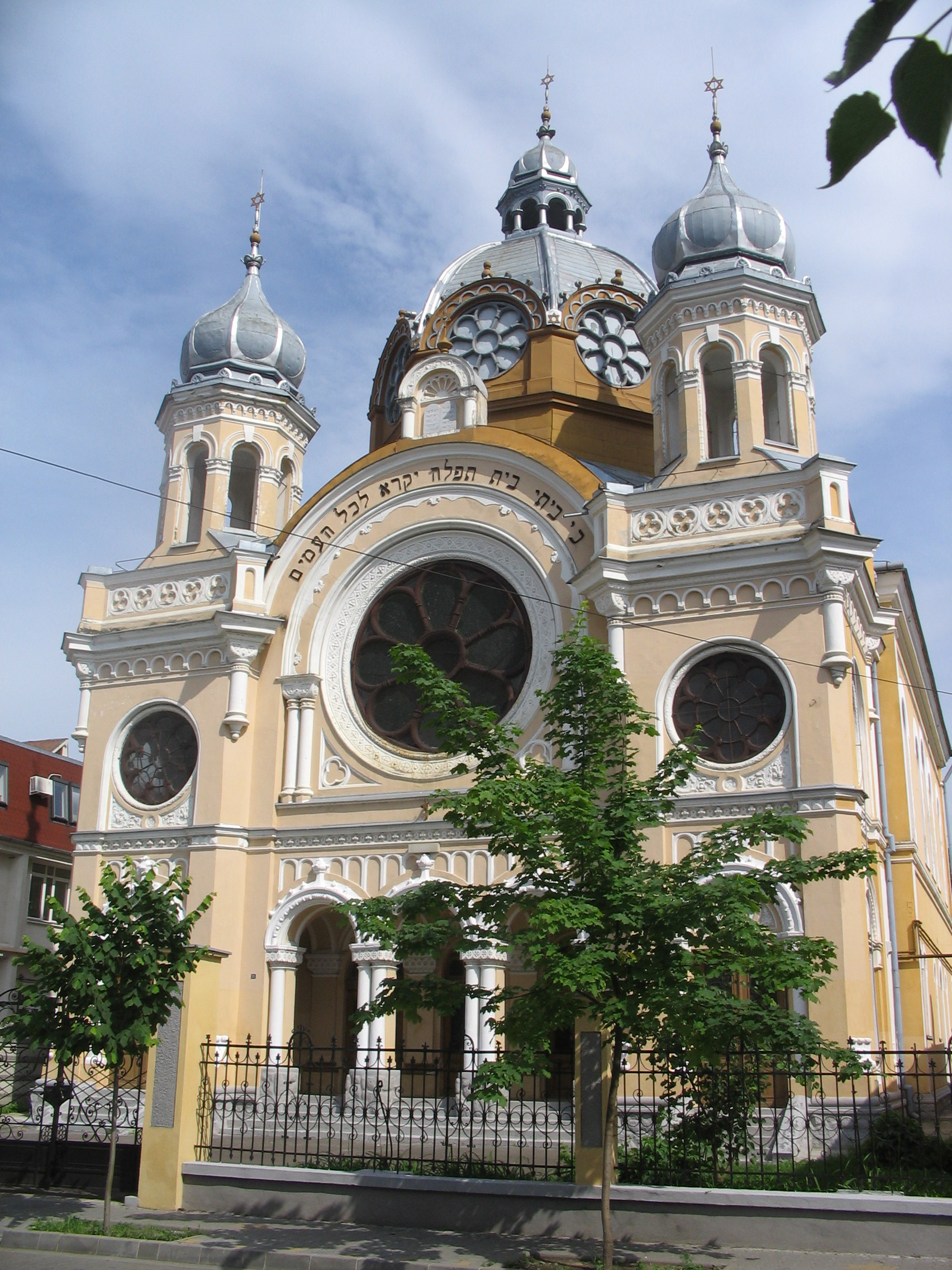 The Status Quo Synagog in Marosvásárhely